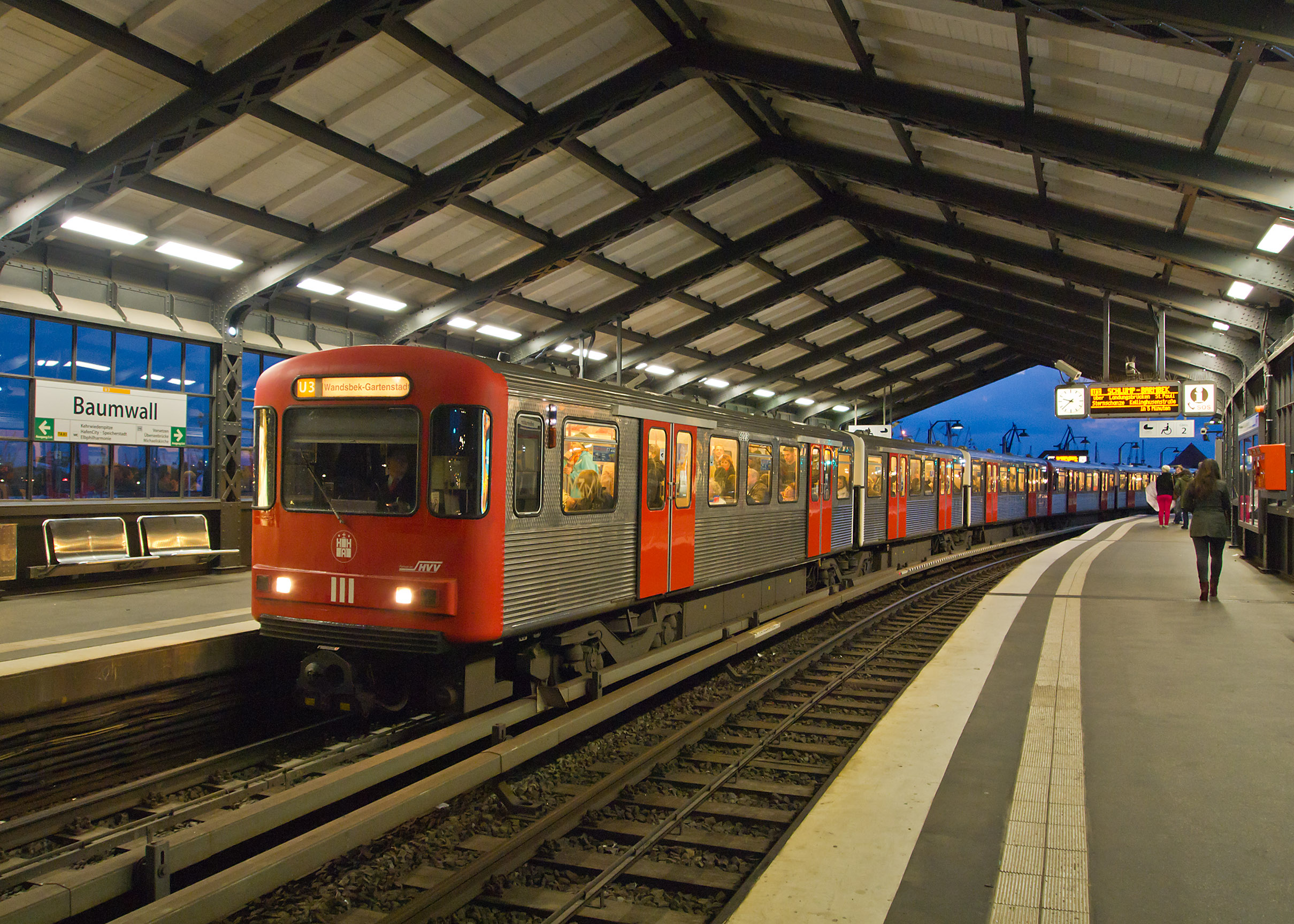 Train type DT3 in the metro station Baumwall, line U3, near the port of Hamburg in Germany.